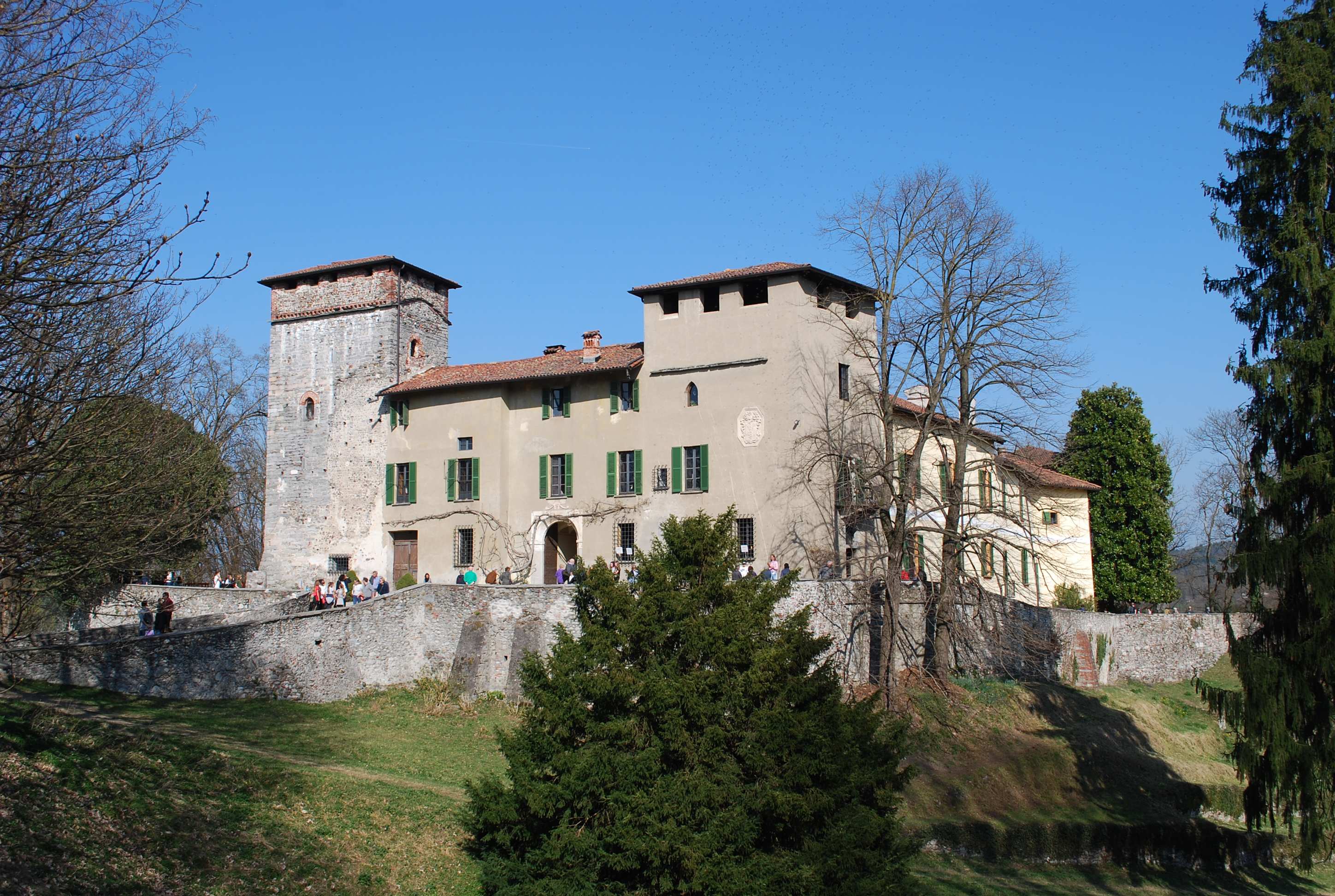 Castelletto sopra Ticino (Province of Novara, Piedmont Italy) – Visconti Castle